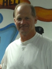 Command Sgt. Maj. Wilson L. Early, 36th Infantry Division, poses with professional football head coaches (left to right) Jim L. Mora, Jim E. Mora, Ken Whisenhunt and Gary Kubiak during their visit to Contingency Operating Base Basra, July 4. COB Basra was the last stop of a tour of military bases in Kuwait and Iraq sponsored by the National Football League and the United Services Organization.